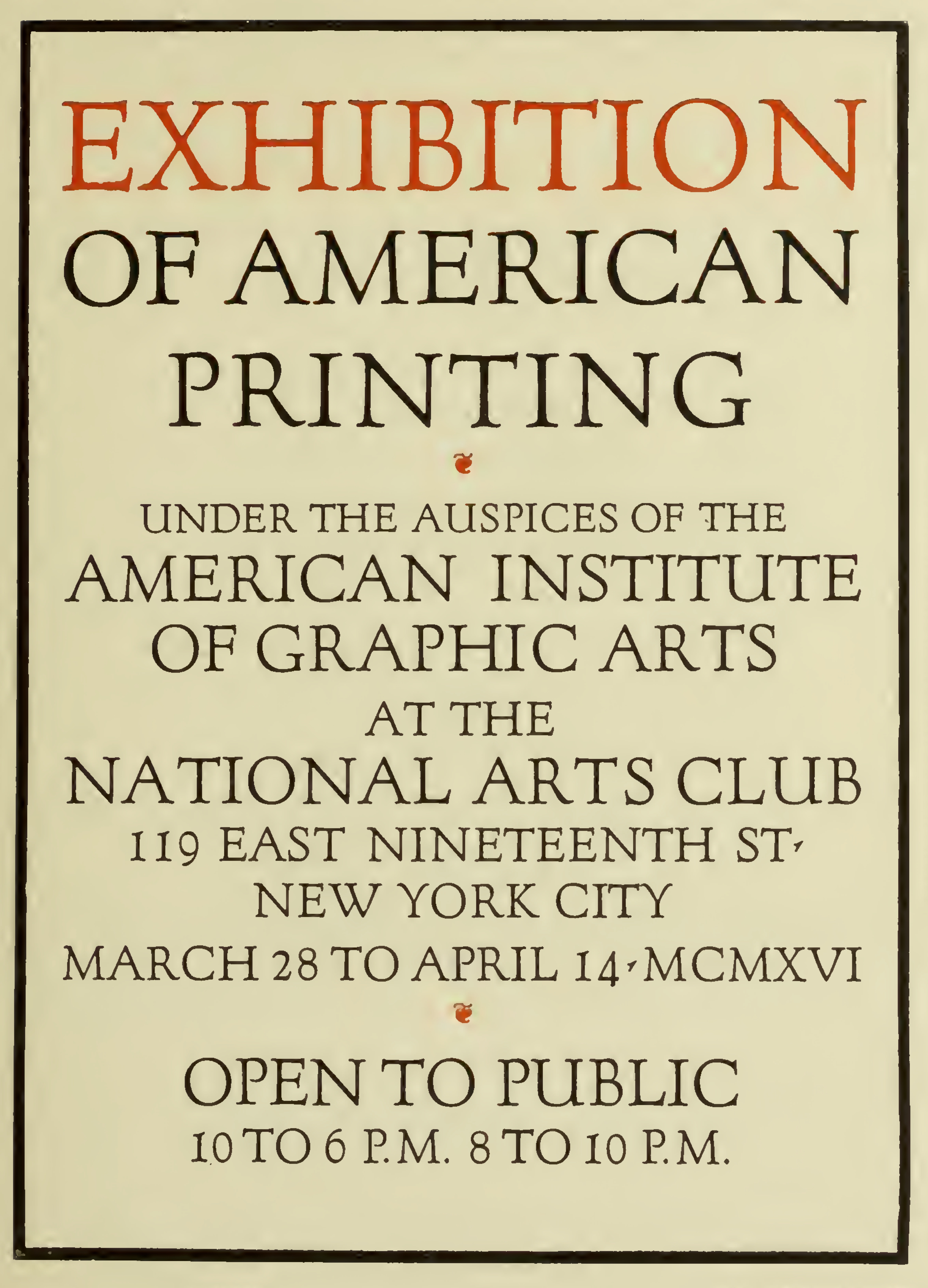 Sample of Goudy Forum Typeface as used on an advertisement. The advert was considered good enough to be used in a book on typography some years later.